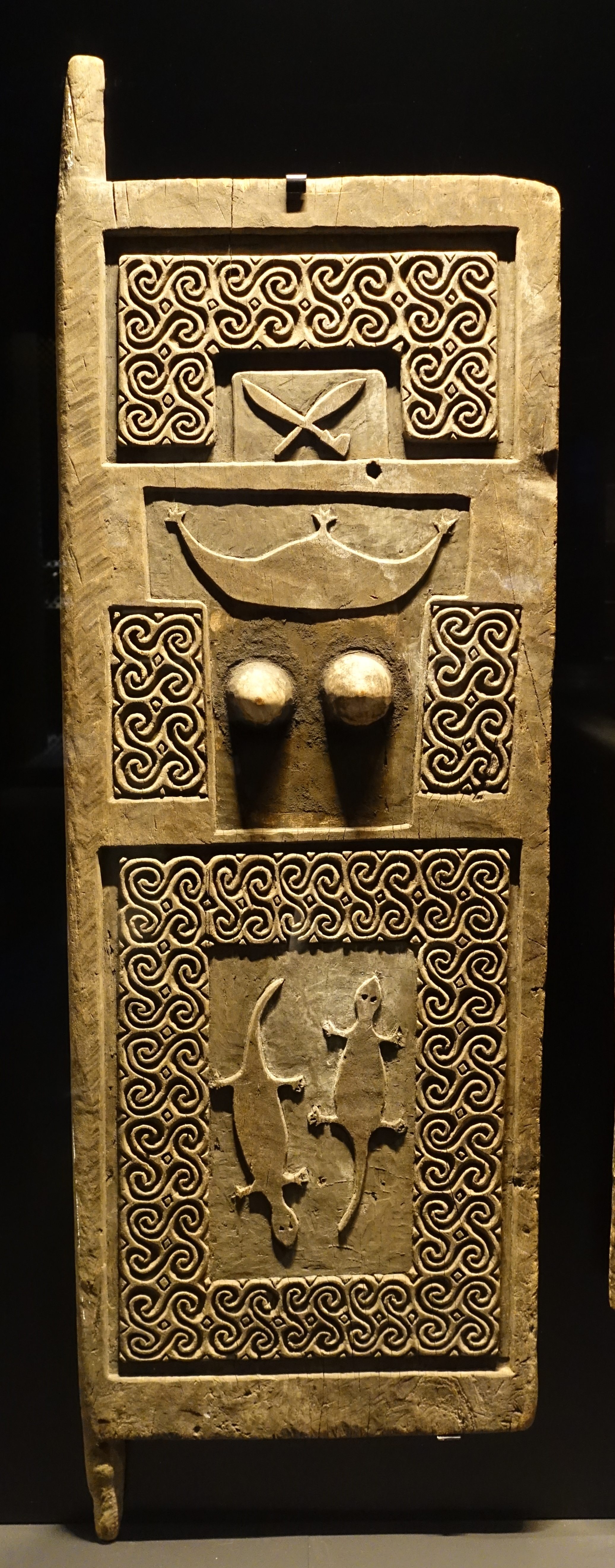 Exhibit in the Museu do Oriente - Lisbon, Portugal. This work is old enough so that it is in the public domain.